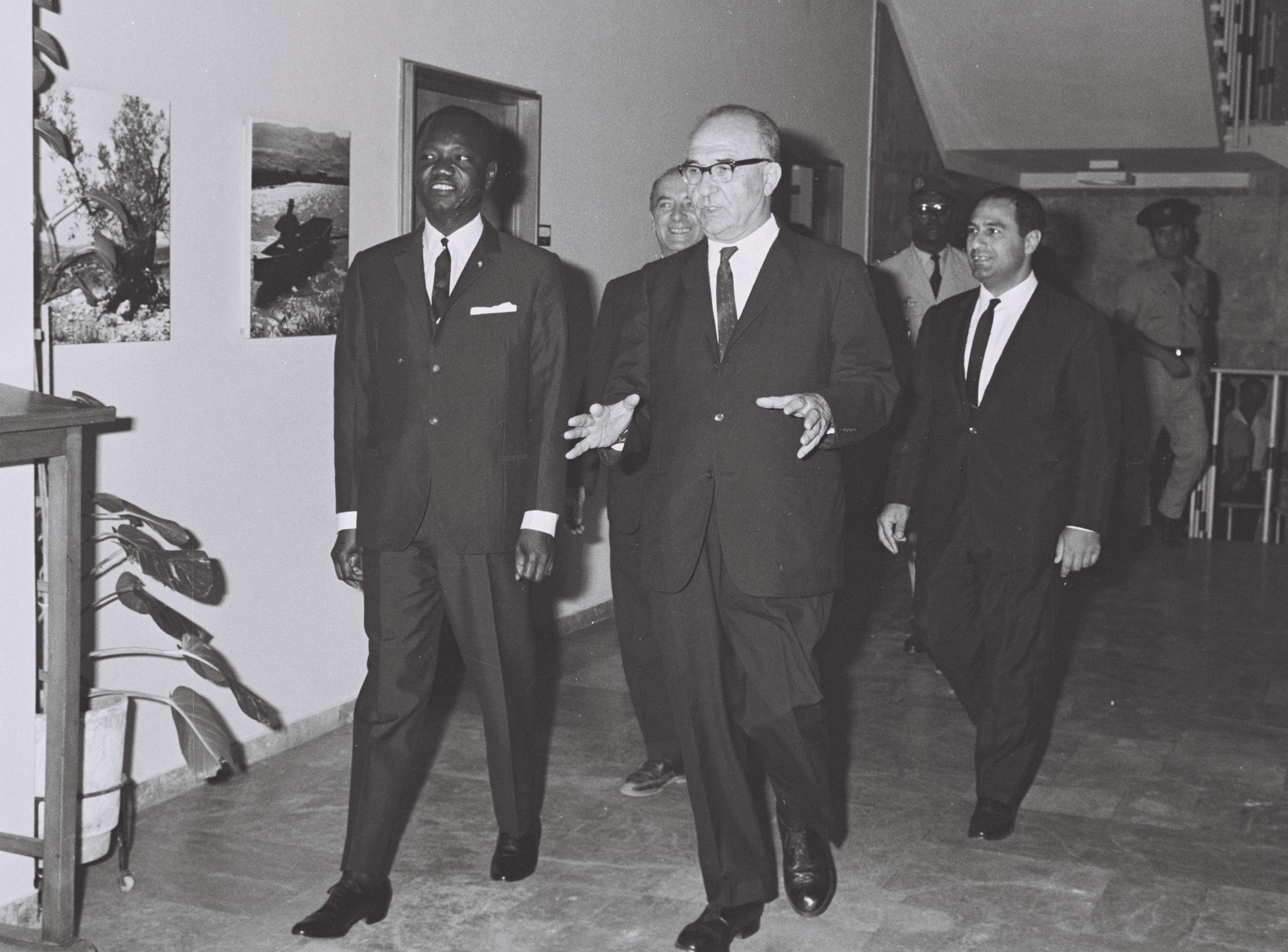 President of Chad François Tombalbaye and Prime Minister of Israel Levi Eshkol at the Prime Minister's Office, September 30, '65.